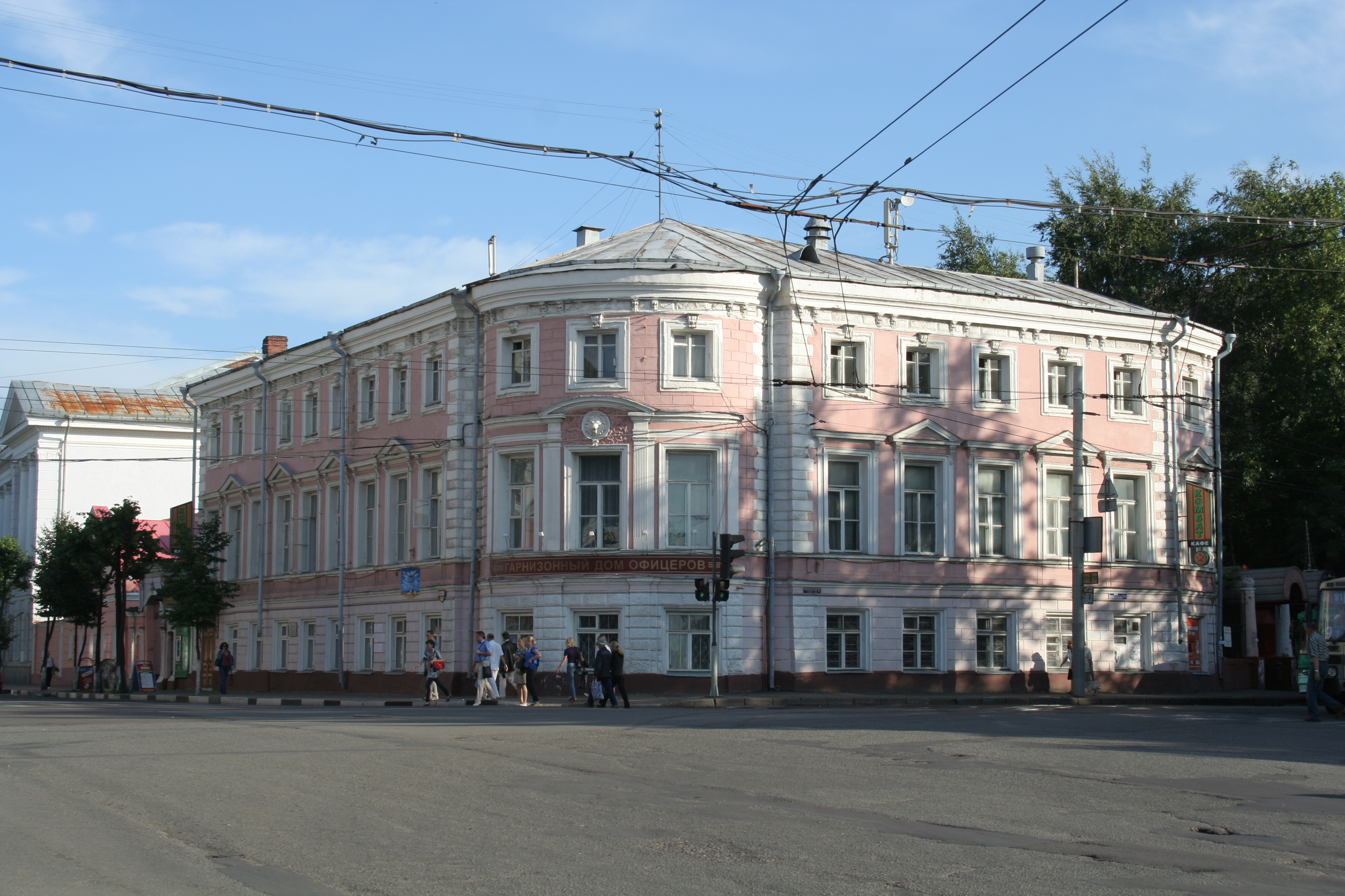 Former house of the Nobility Assembly in Yaroslavl, Russia